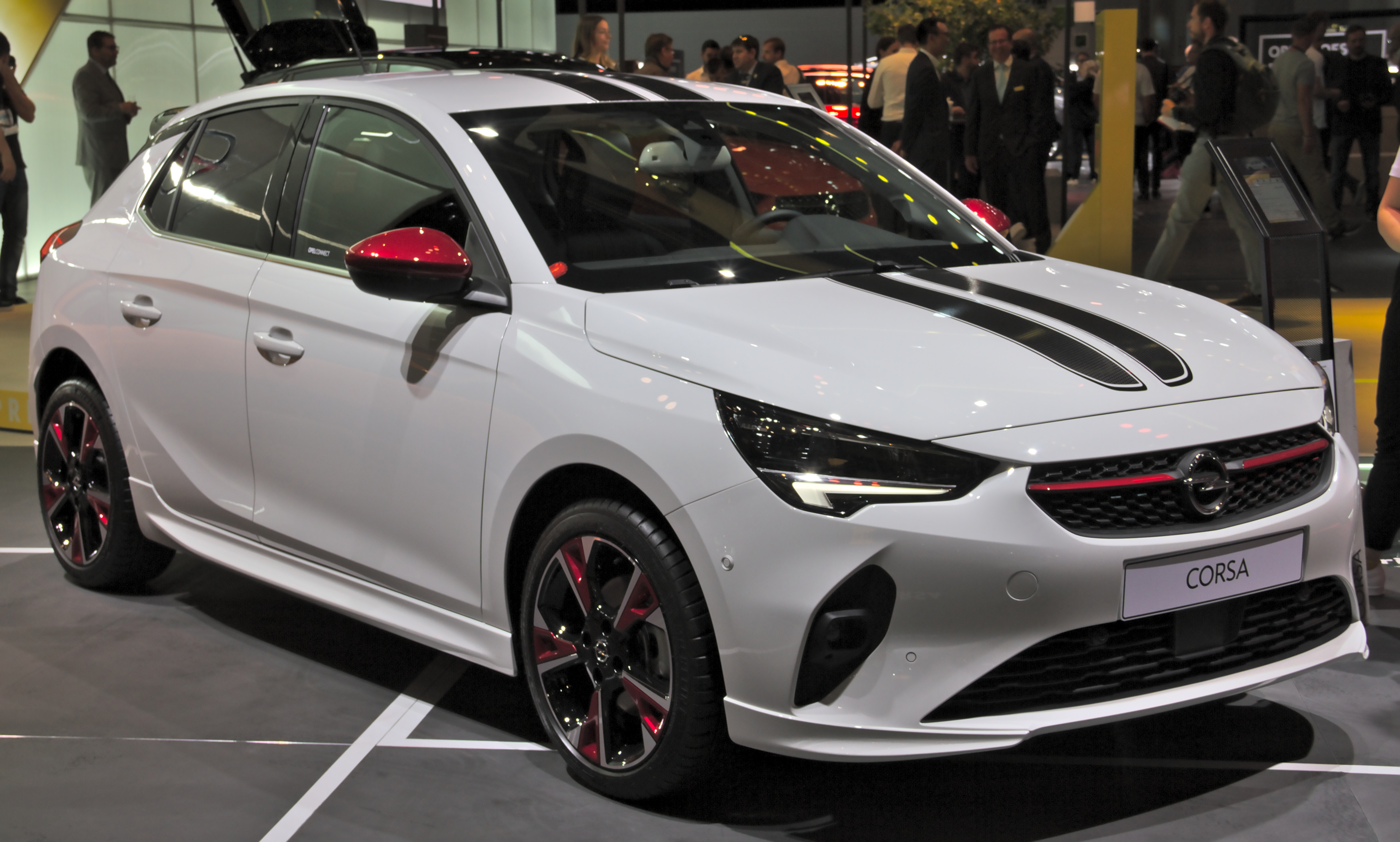 Opel_Corsa_F at IAA 2019